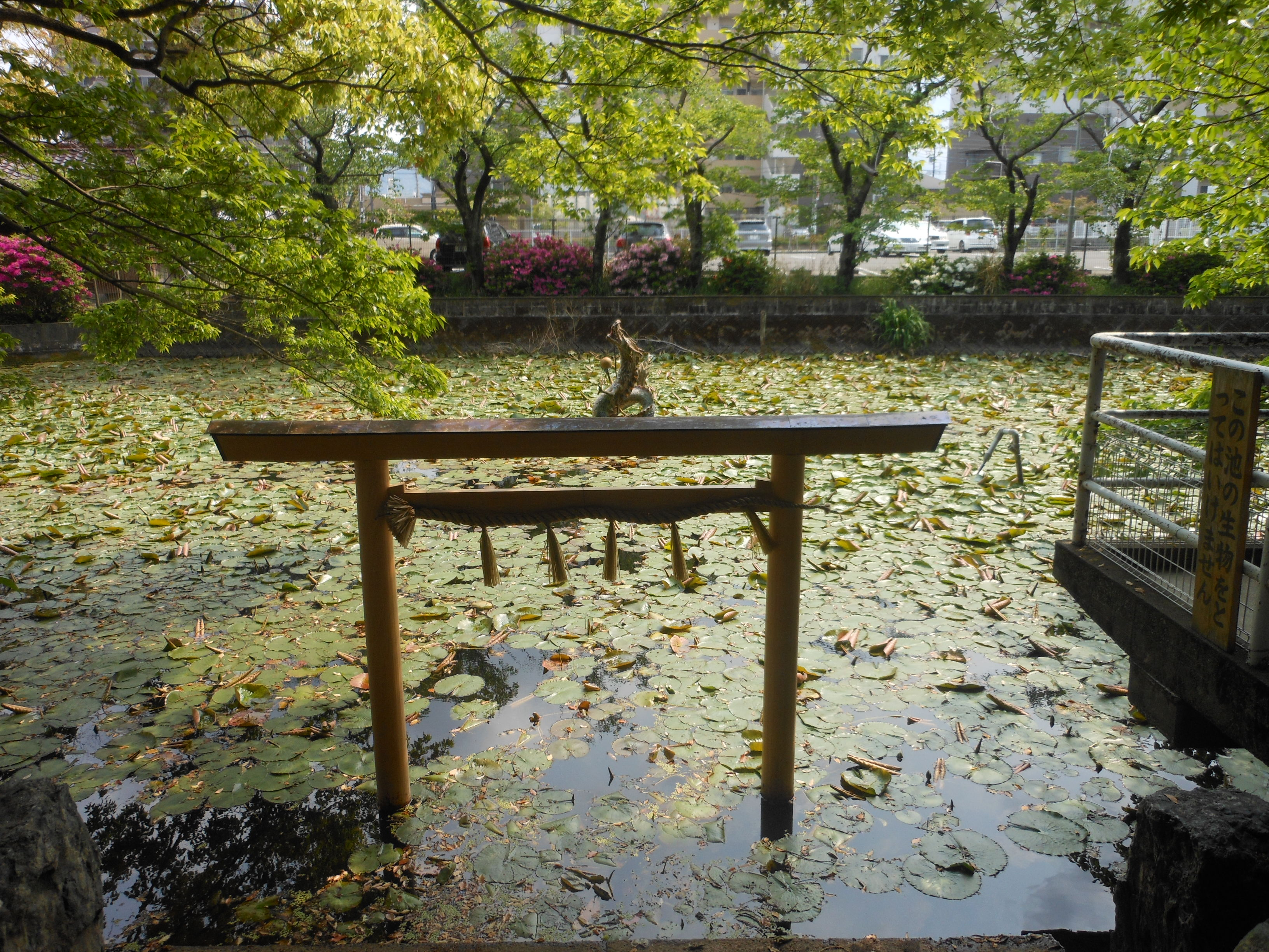 This is Oboro ga ike pond in Funae, Ise, Japan. This pond has a dragon monument and a torii.